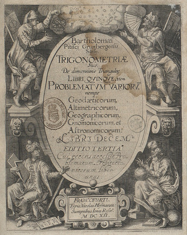 Original image description from the Deutsche FotothekGeometrie & Trigonometrie